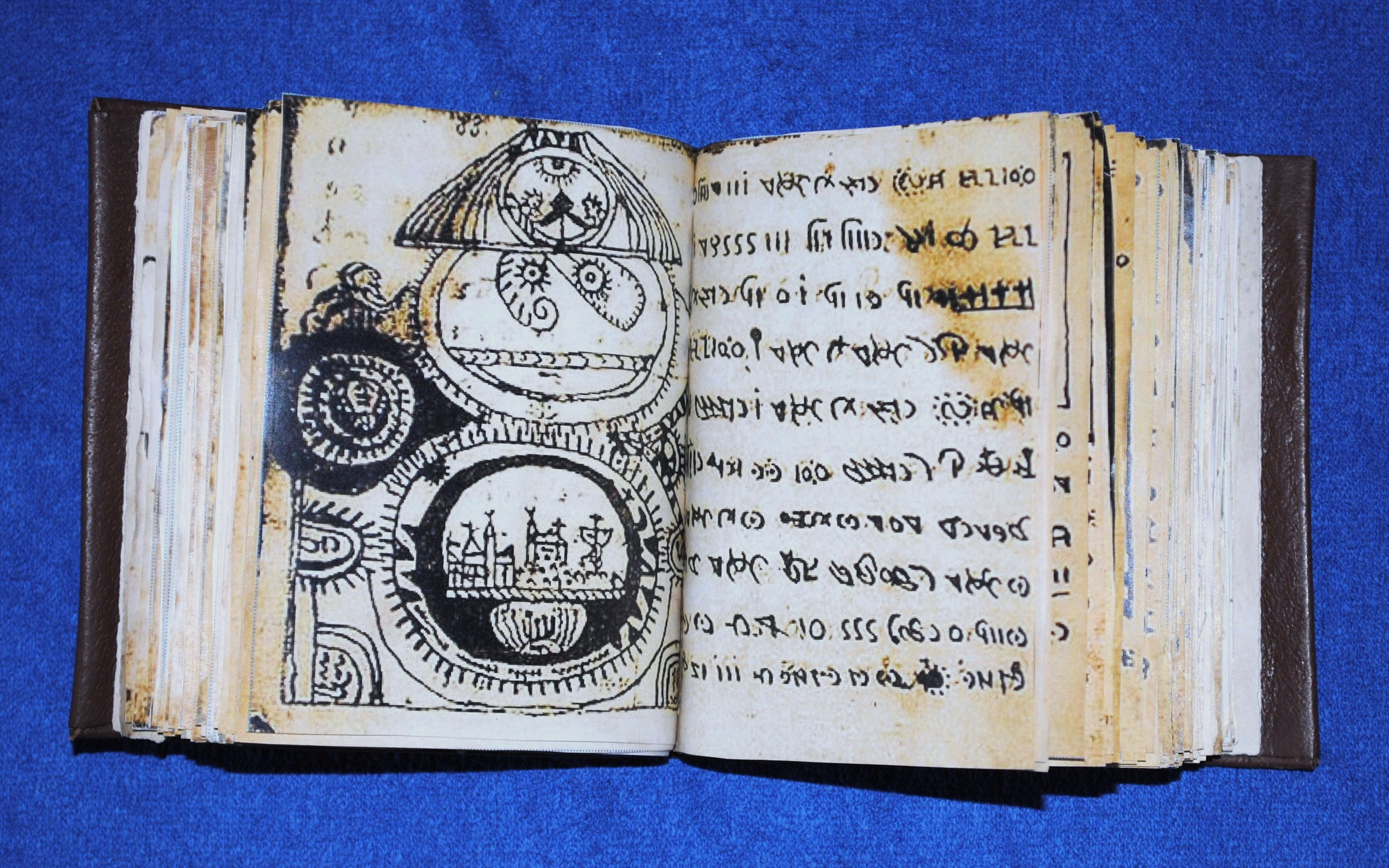 This is acopy of the Rohonc Codex (not the original).